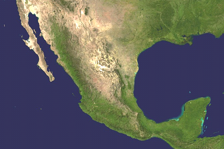 Mexico taken from a satellite, showing the United States at the north and Central America at the South.